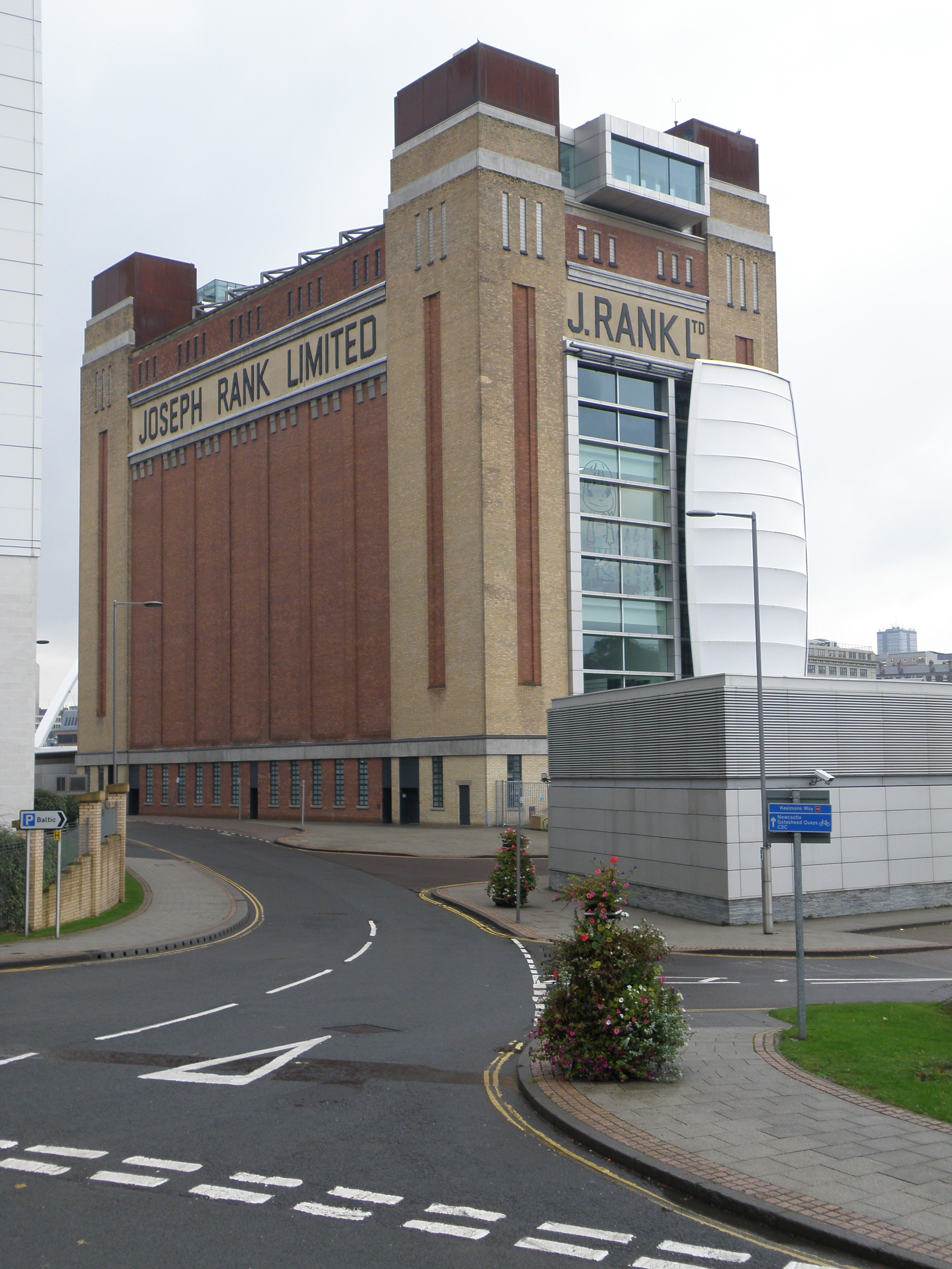 The former flour mill and grain silo of Joseph Rank Ltd